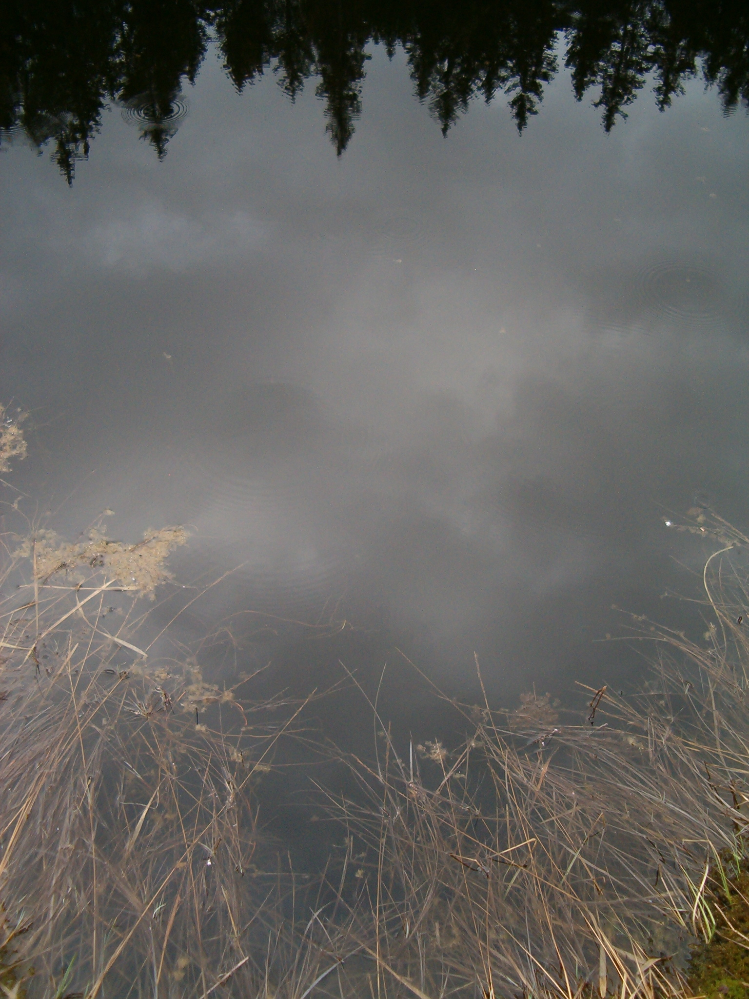 Schwarzsee at Arosa